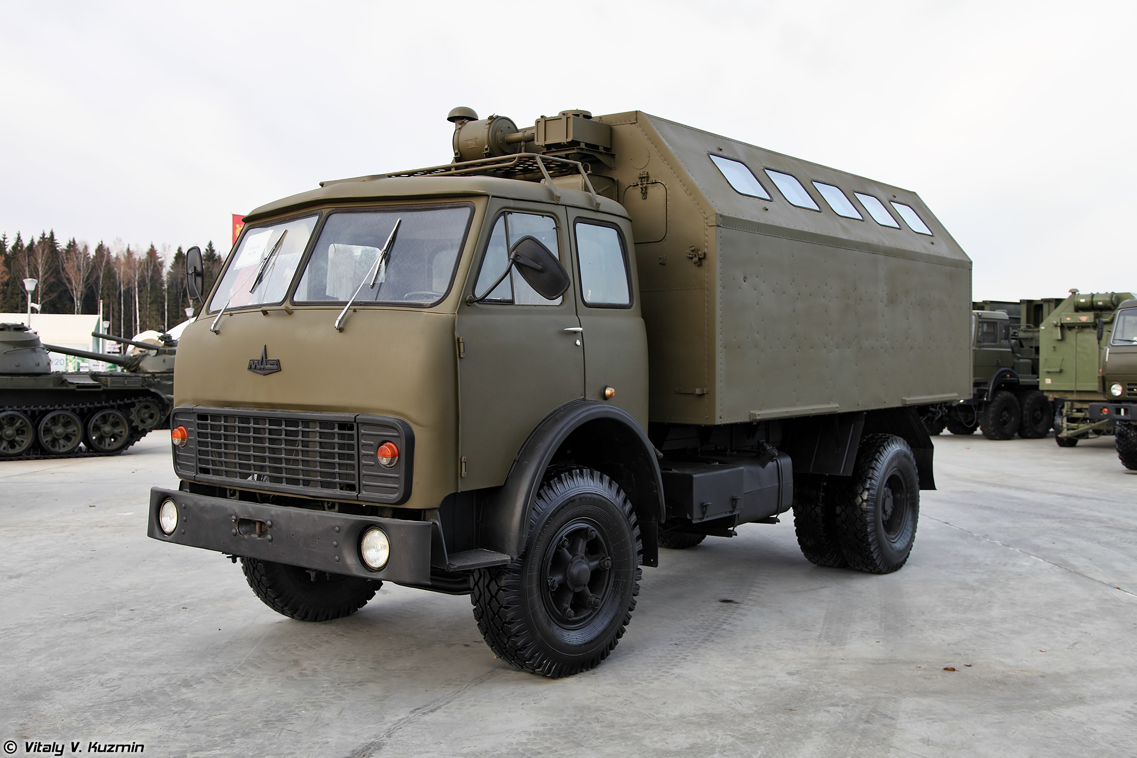 МАЗ-5334 с кузовом КМ-500 (MAZ-5334 with KM-500 compartment)